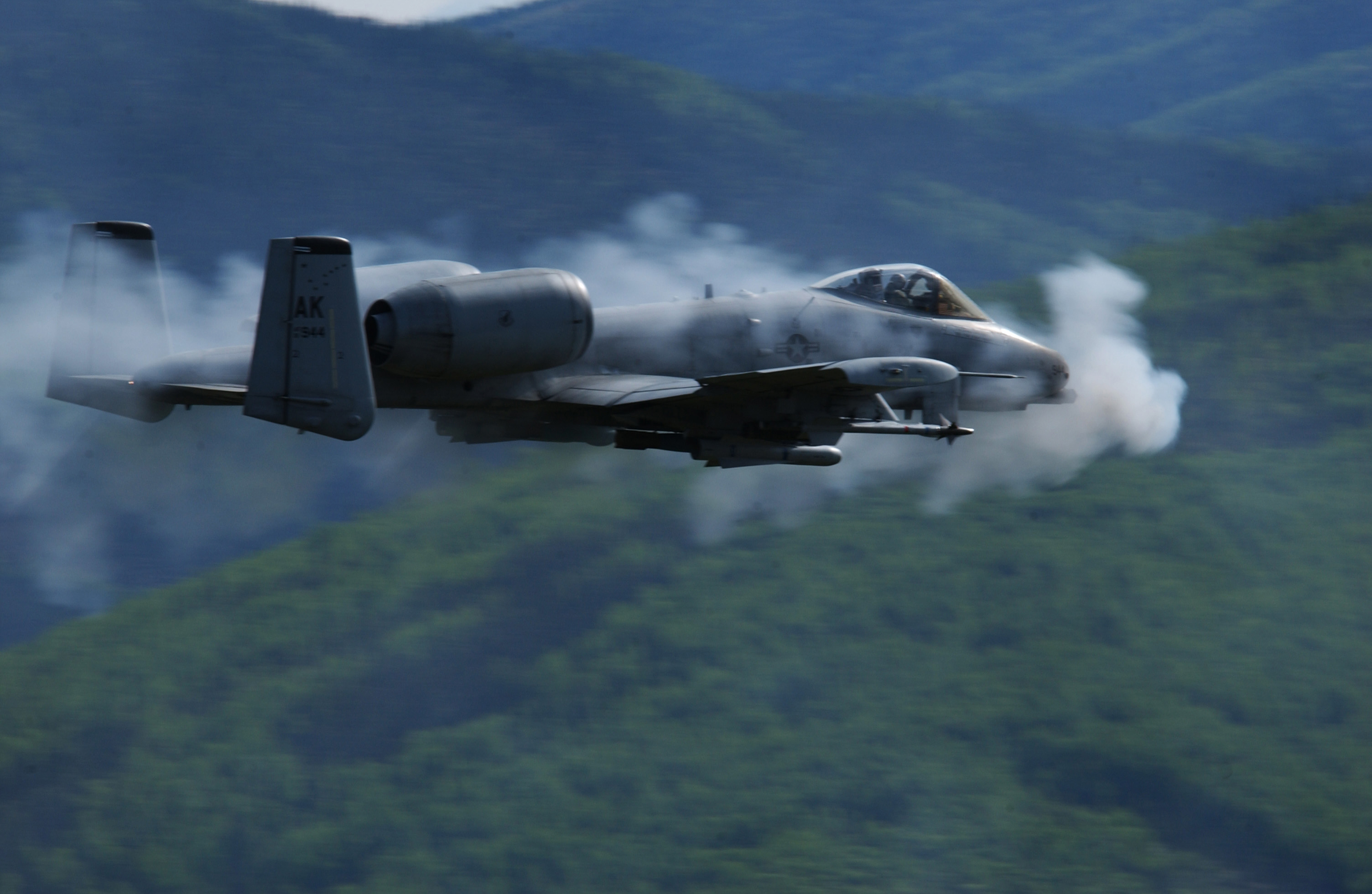 A U.S. Air Force A/OA-10 Thunderbolt II from the 355th Fighter Squadron is surrounded by a cloud of gun smoke as it fires a 30mm GAU-8 Avenger Gatling gun over the Pacific Alaska Range Complex in Alaska on May 29, 2007. The seven-barrel Gatling gun can be fired at a rate of 3,900 rounds per minute. DoD photo by Airman 1st Class Jonathan Snyder, U.S. Air Force.